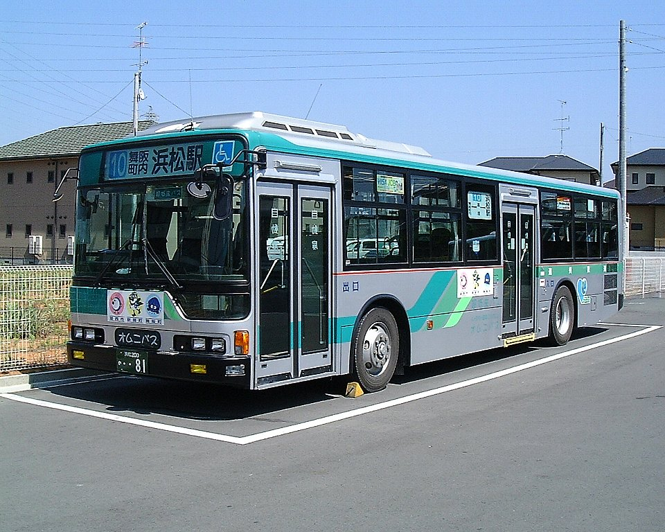 a low-floor bus of Entetsu. No.81 Mitsubishi Fuso Aero Star KC-MP747M